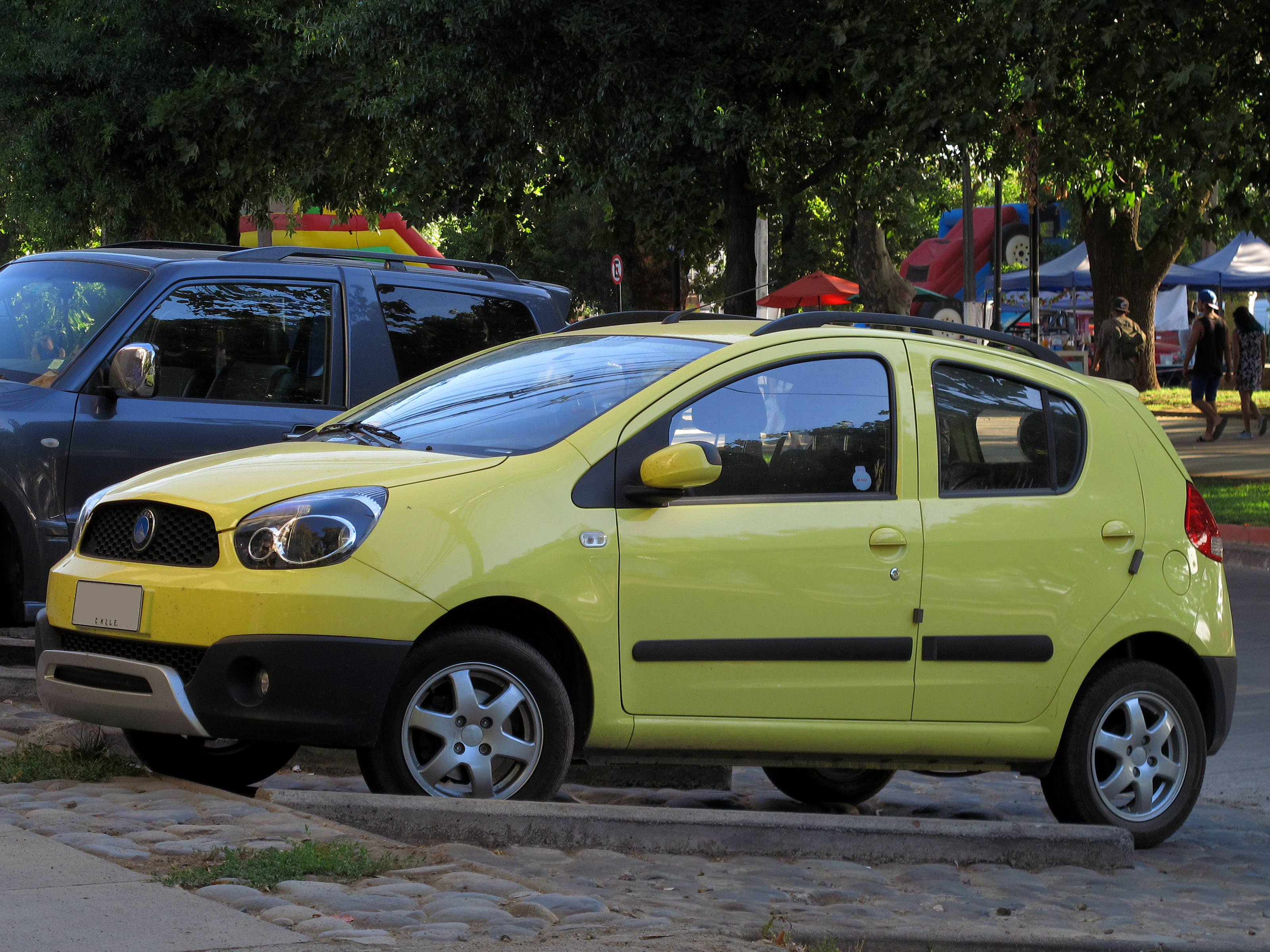 Geely LC 1.3 Cross 2014